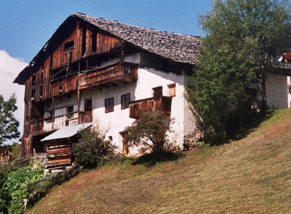 Empty House in Campei in Wengen in South Tyrol in Italy